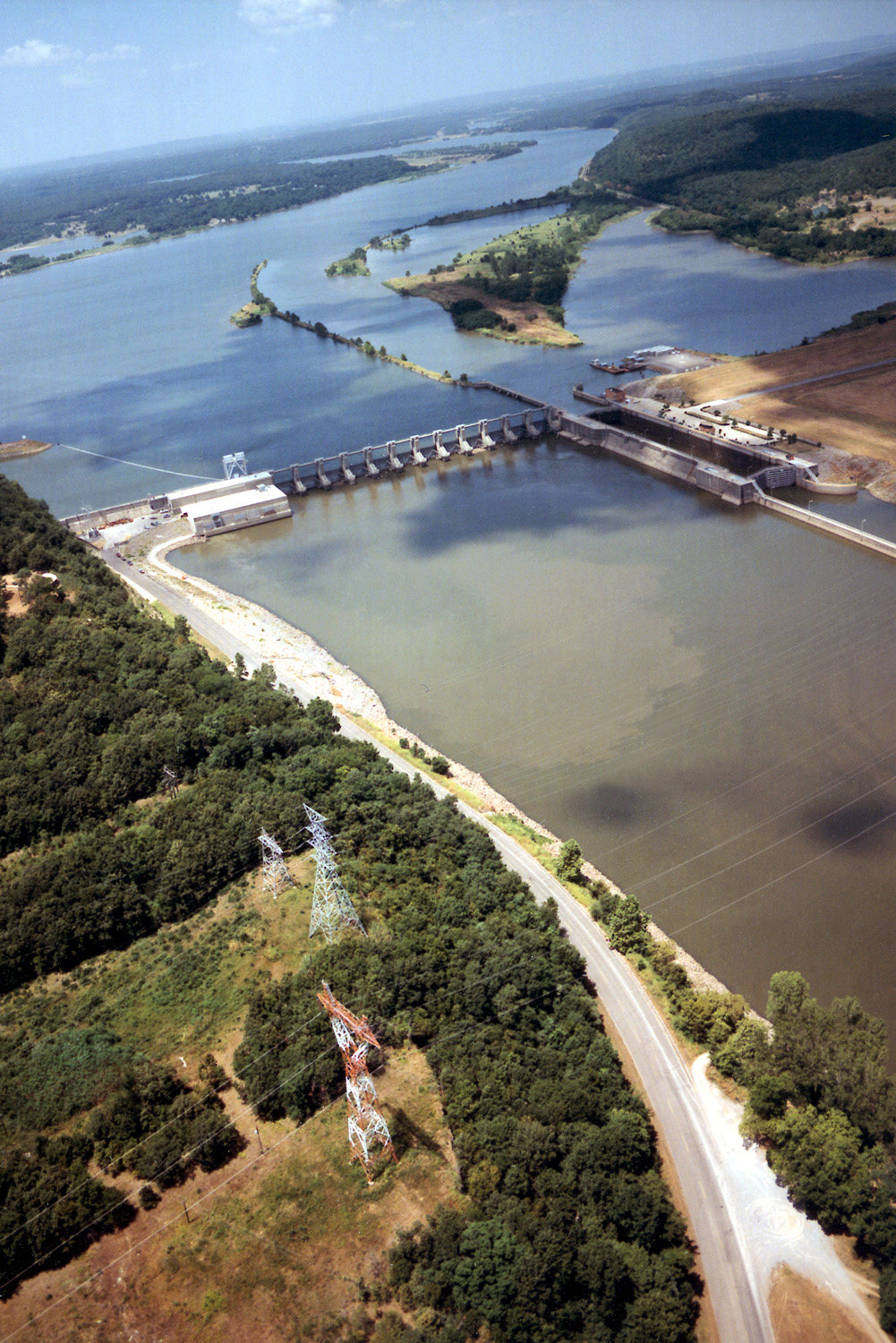 Aerial view of Webbers Falls Lock and Dam on the Arkansas River in Muskogee County, Oklahoma, USA. The dam is located about 4 miles (6.4 km) upriver from the town of Webbers Falls and about 62 miles (100 km) (straight line) southeast of Tulsa. The U.S. Army Corps of Engineers maintains the locks and the river channel for barge navigation on the river. View is upriver to the northwest. Coordinates: 35°33′13.73″N 95°10′9.26″W / 35.5538139°N 95.1692389°W